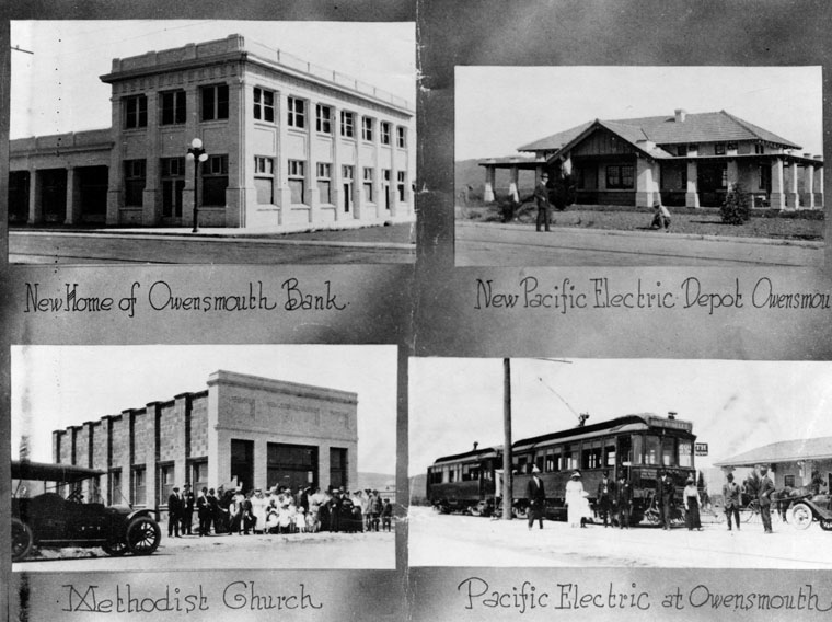 Buildings in Owensmouth: Owensmouth Bank, Pacific Electric depot Owensmouth, Methodist Church